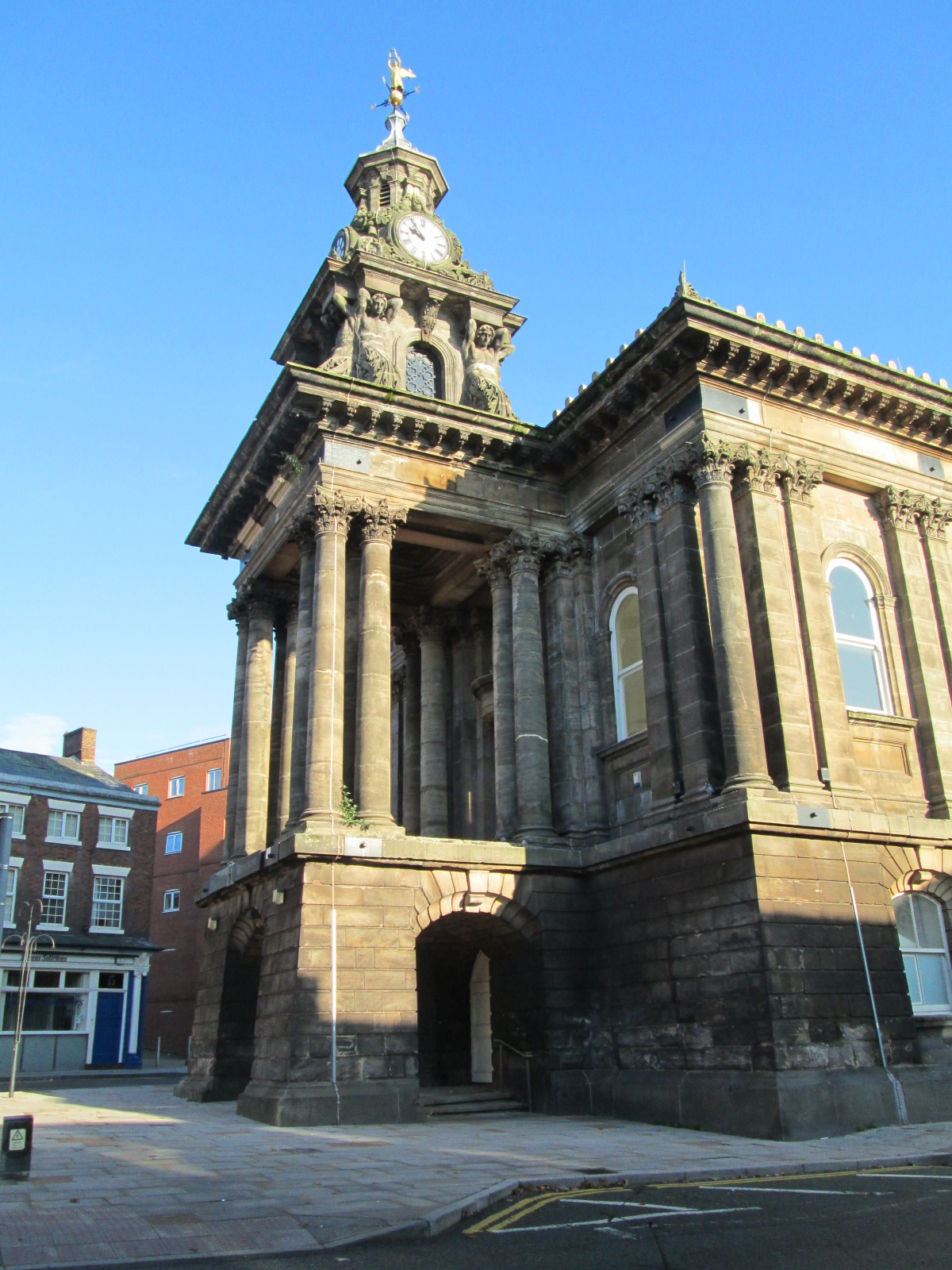 The Old Town Hall, in Burslem, Staffordshire: the western end, seen from the south.